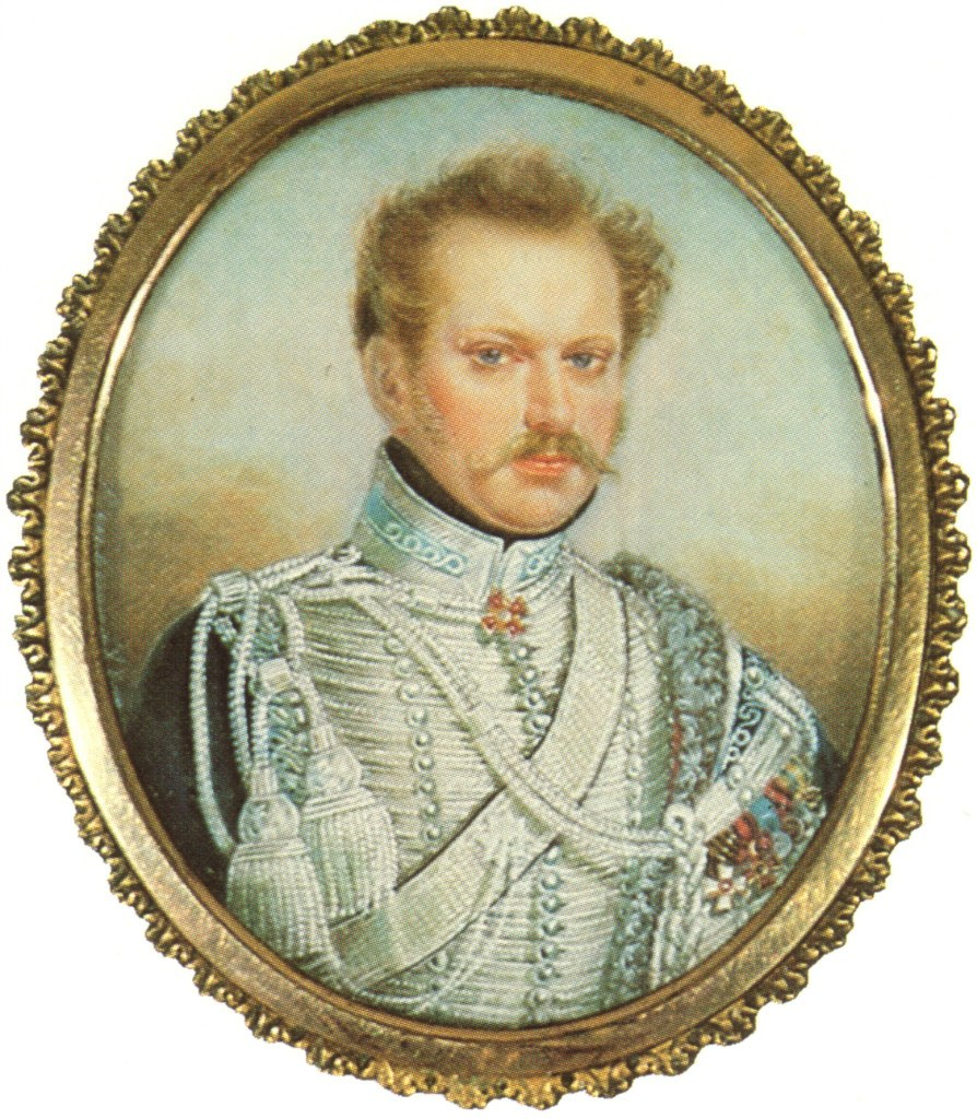 Giers Alexander Karlovich